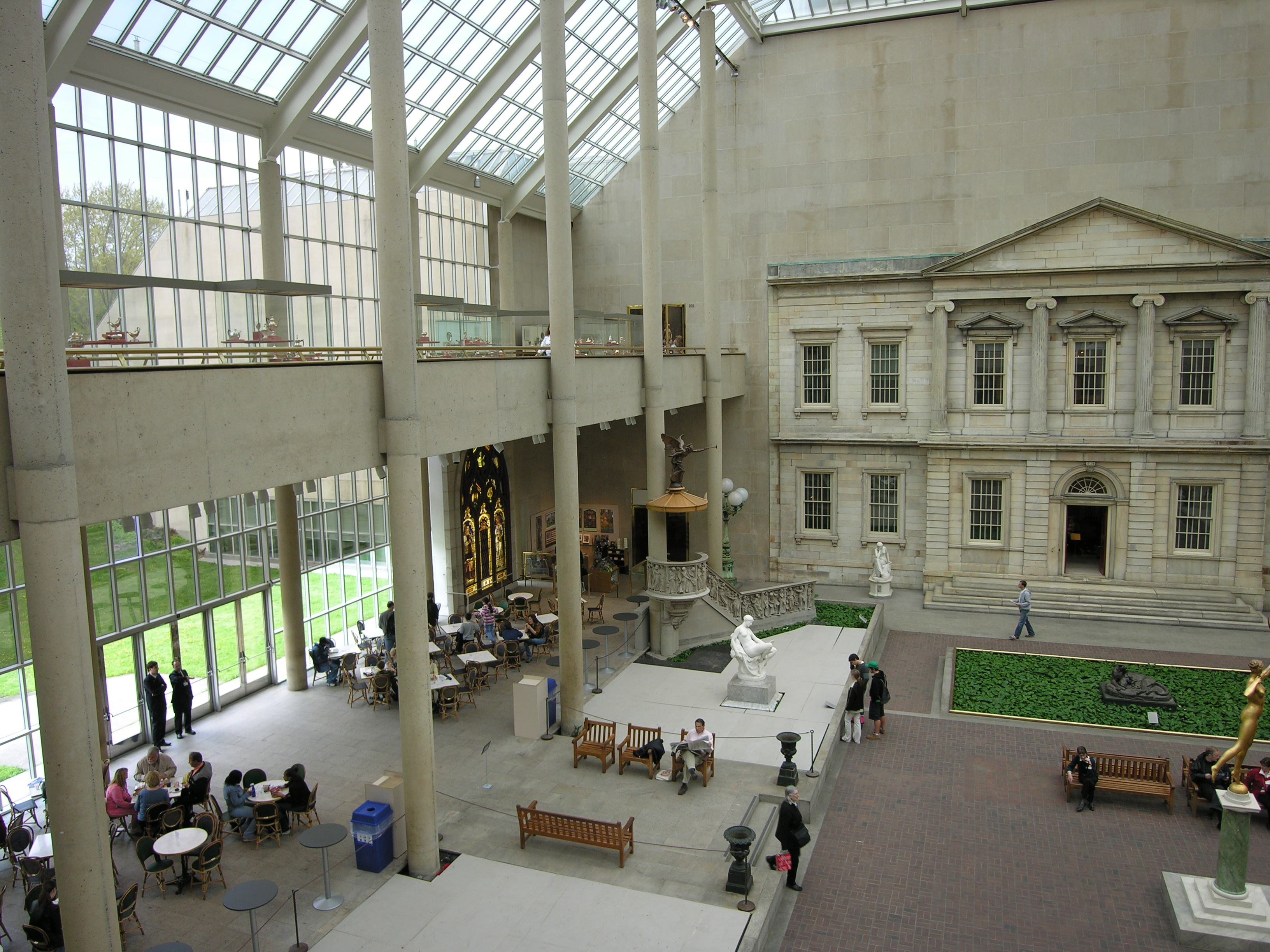 New York CityThe Metropolitan Museum of Art